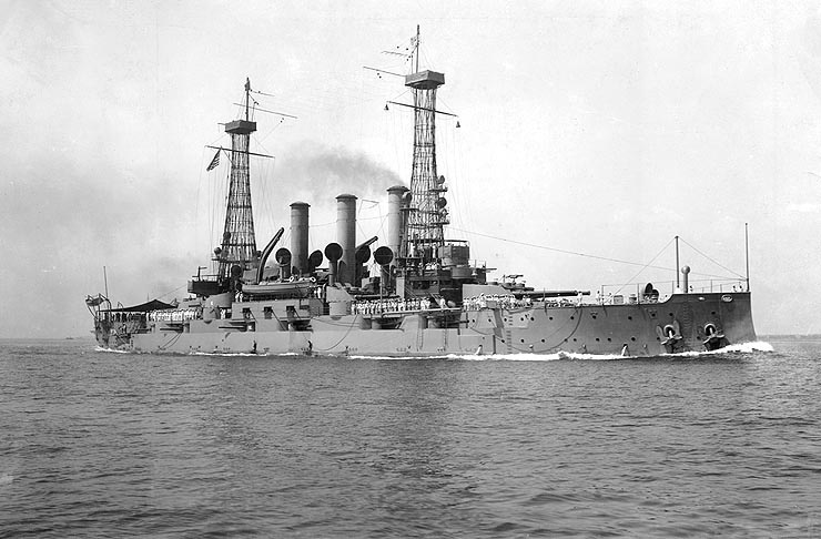 USS Connecticut underway, prior to World War I